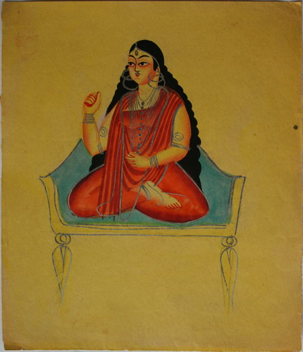 Bhuvaneswari, Kalighat painting